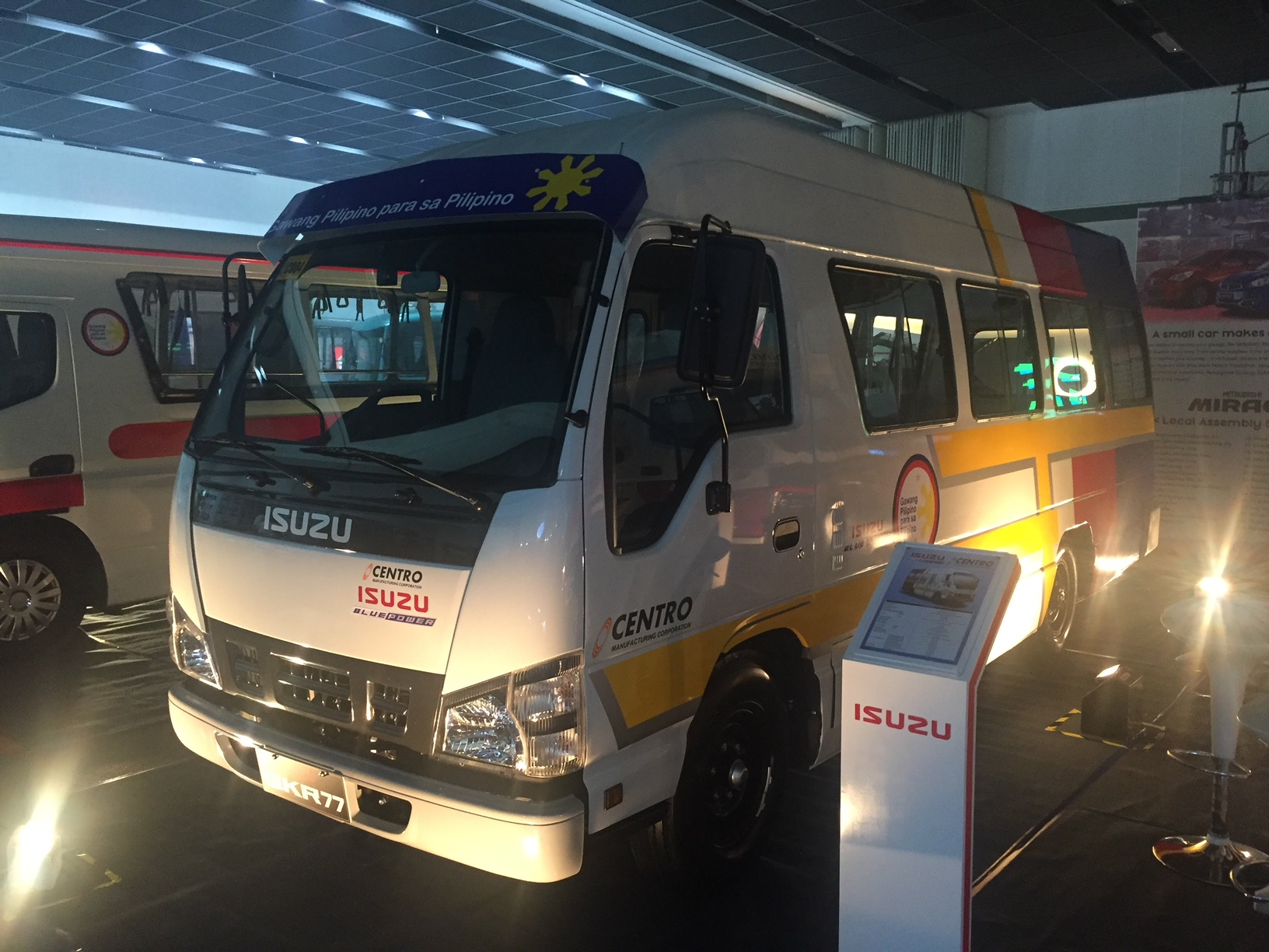 Prototype Isuzu Modern Jeepney at the Department of Transportation's PUV Modernization Exhibition at Philippine Convention Center (PICC) Forum in Pasay City.